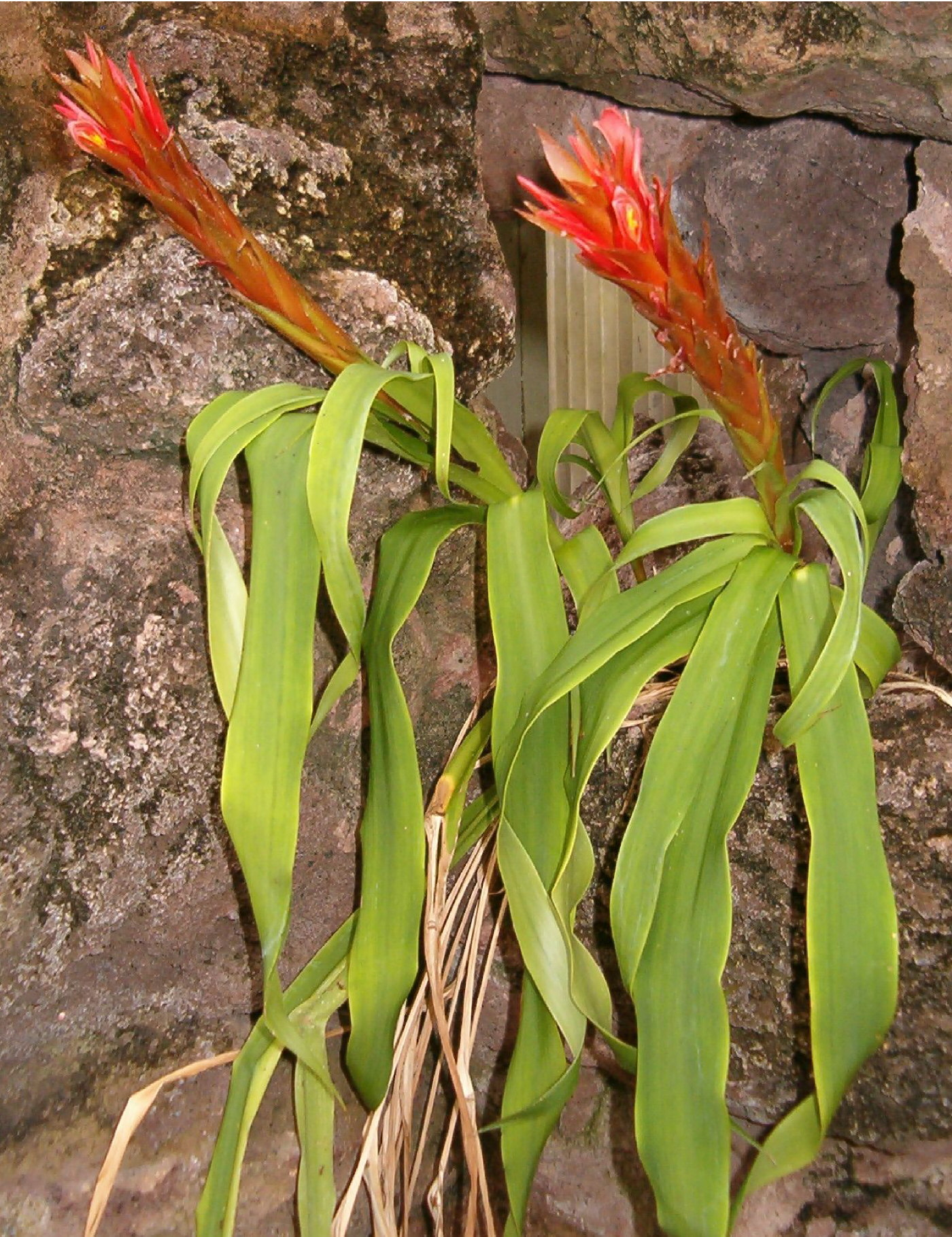 Habitus and Inflorescence Location: Botanical Gardens Berlin